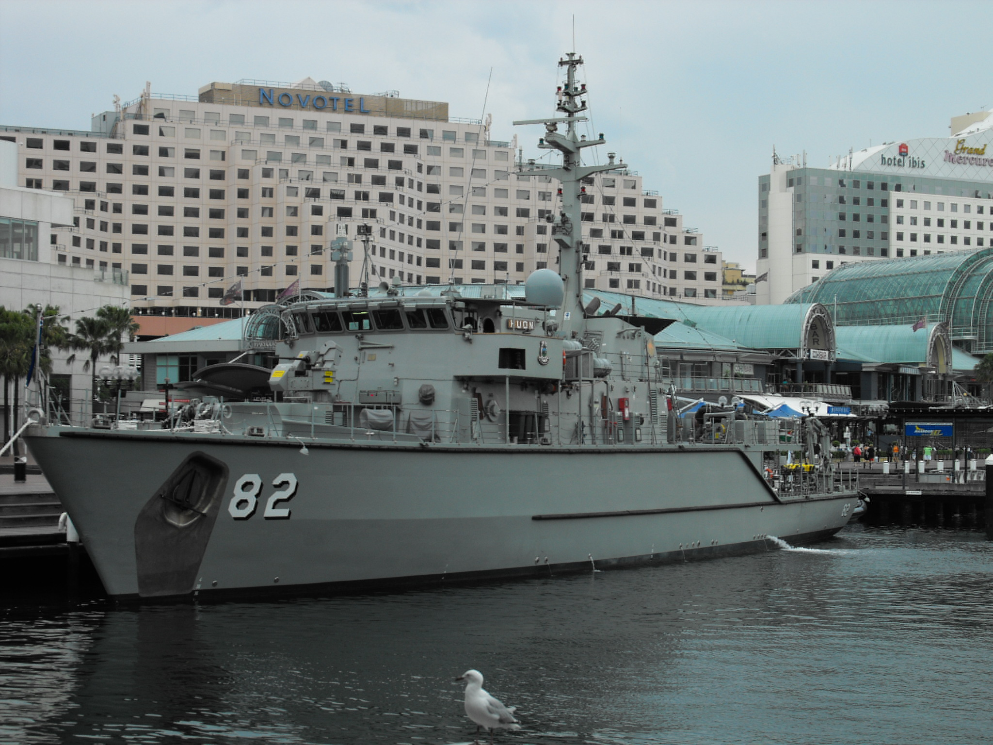 The Huon class minehunter HMAS Huon (M 82) berthed at Darling Harbour, Sydney, Australia, for the 2010 Sea Power Conference at the Darling Harbour Convention Centre